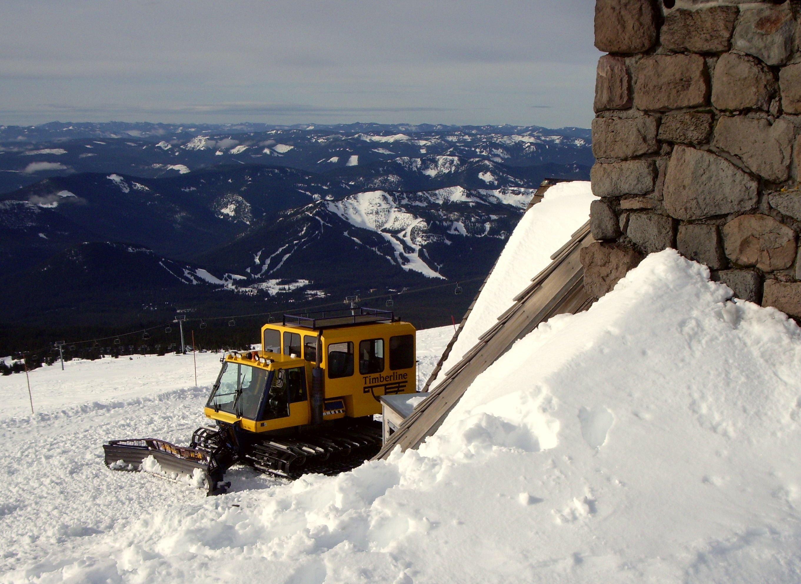 Vista of Silcox Hut showing snowcat which transported overnight guests, Ski Bowl ski area and northern Oregon Cascade Range foothills.